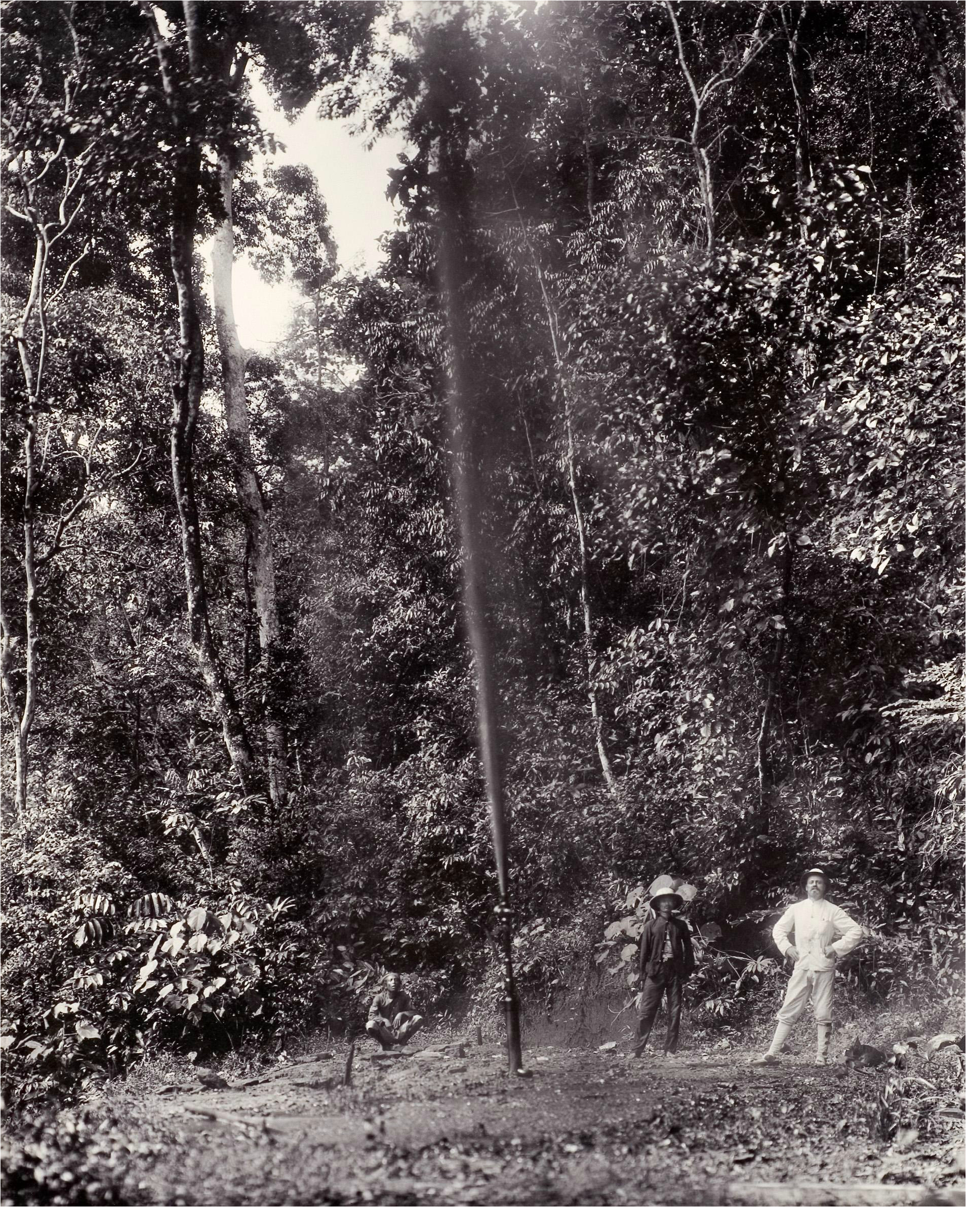 Oil source of the Refinery Dordtsche Petroleum Company in Panolan, residence Rembang, East Java, Indonesia (formerly Netherlands East Indies), approximately 1893